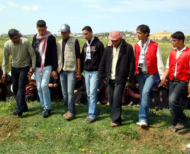 Palestinian youth perform traditional Dabka dancing in the fields of Gaza to commemorate Land Day. Land Day remembers the 1976 murder of six Palestinian demonstrators by Israeli forces in Galilee. Every year, Palestinian communities mark this day with activities and demonstrations to reclaim their land and to resist the continued Israeli occupation.